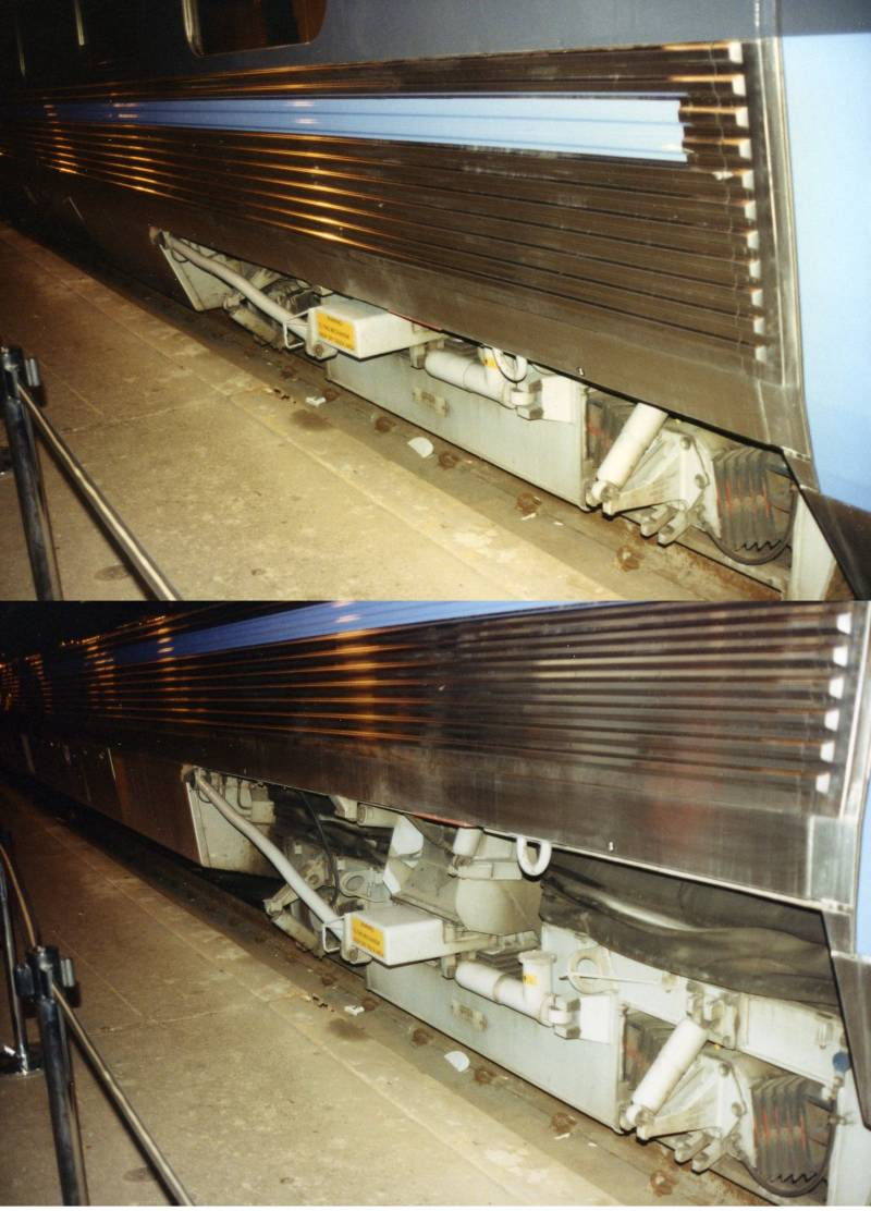 The X 2000 trainset on US tour, seen at Union Station in Chicago, Illinois, 1993. A composite of two images to show off the tilting train system.